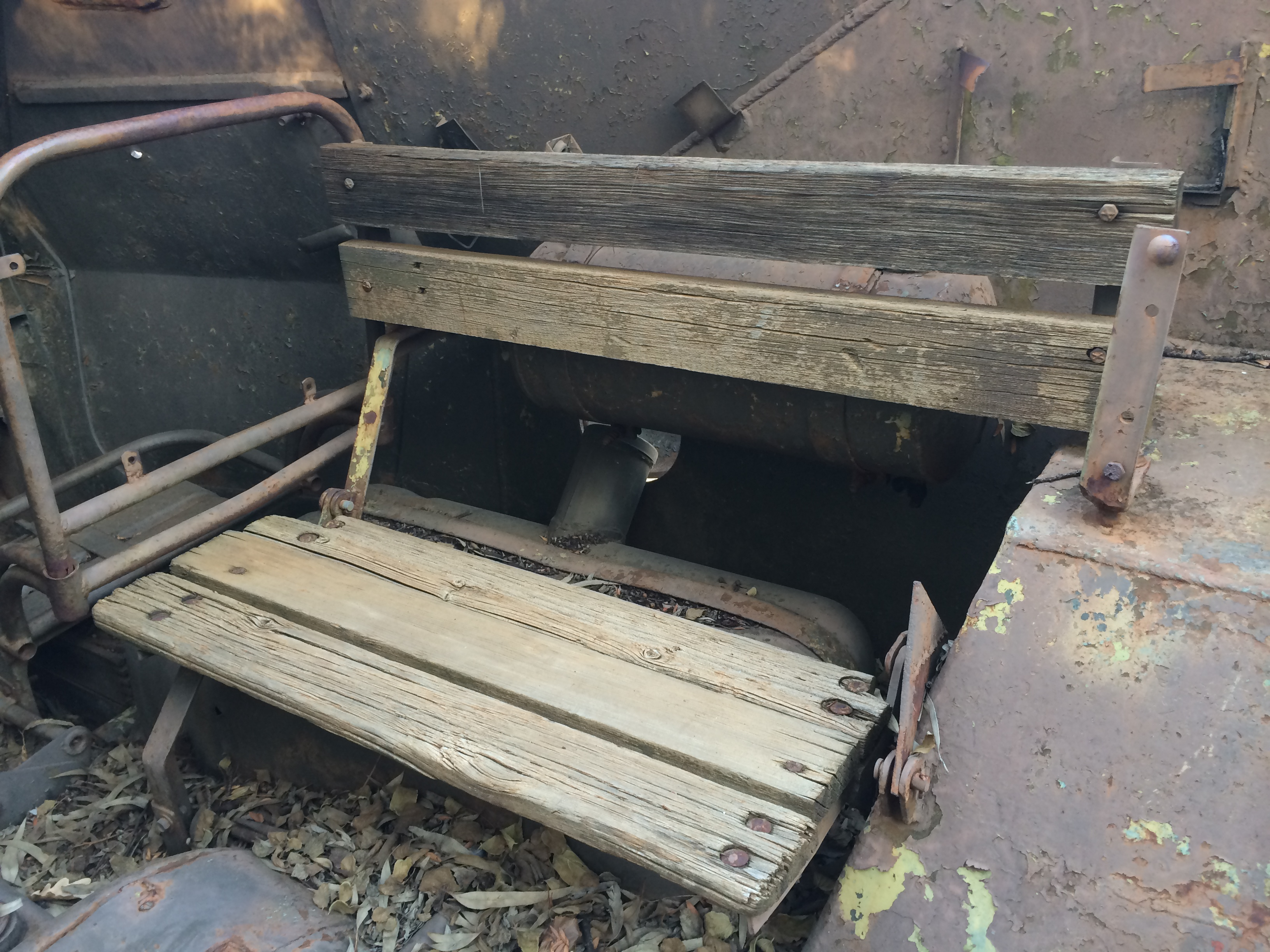 Passenger bench of a Soviet-manufactured BTR-152 late of the Armed Forces for the Liberation of Angola (FAPLA). Taken at the South African Armour Museum, Bloemfontein. 2014.